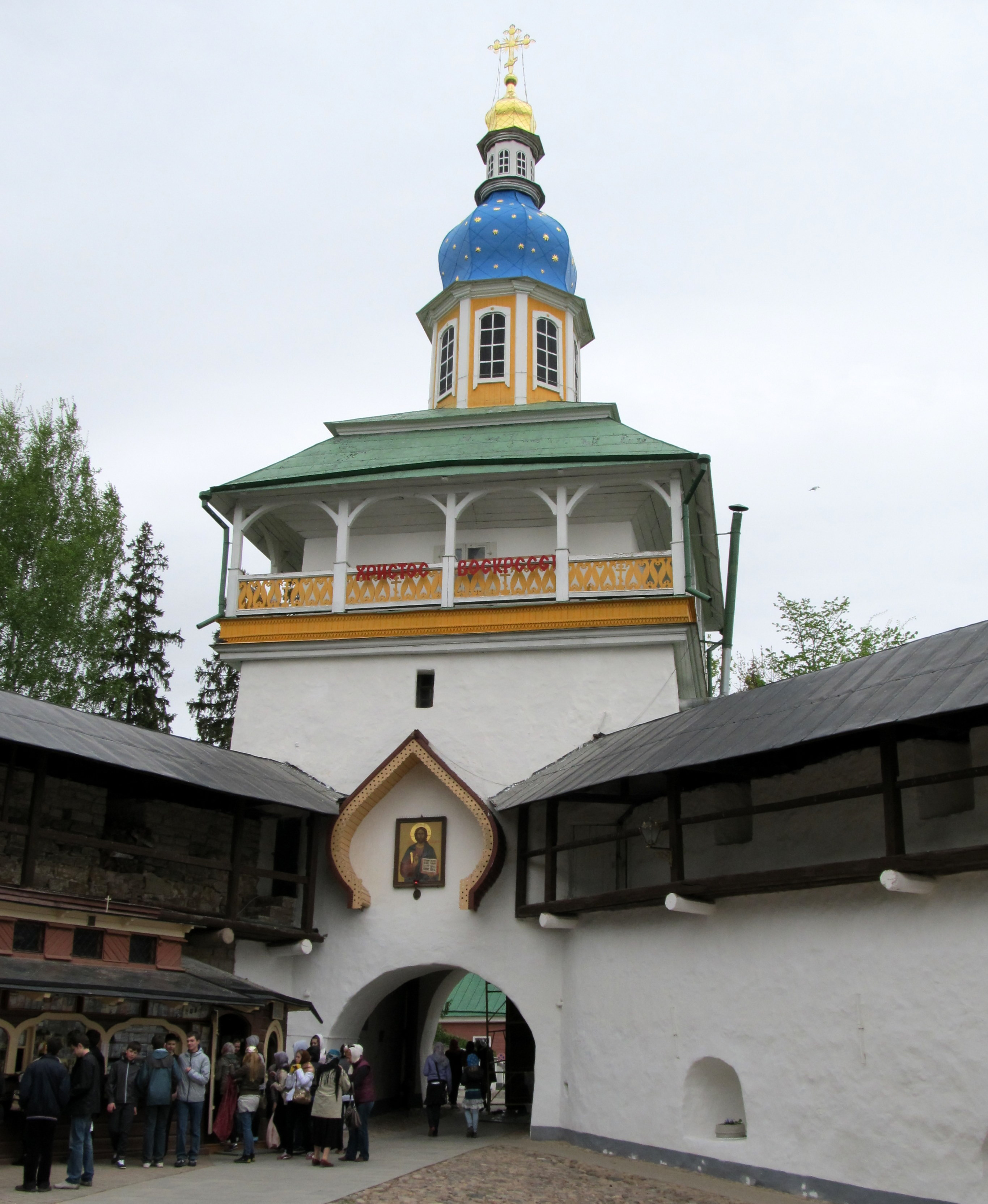 Main gate of Pchory's Monastery from inside